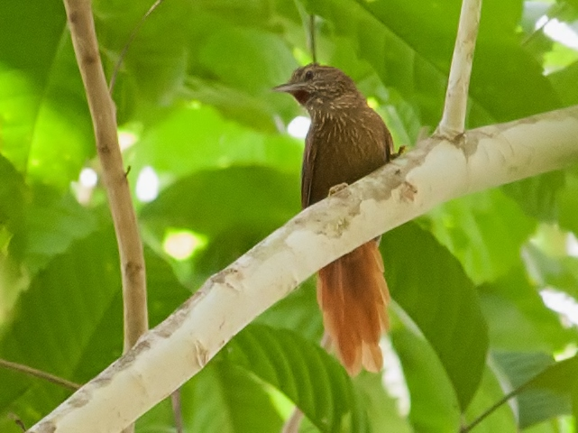 Delta Amacuro Softtail, eastern Venezuela